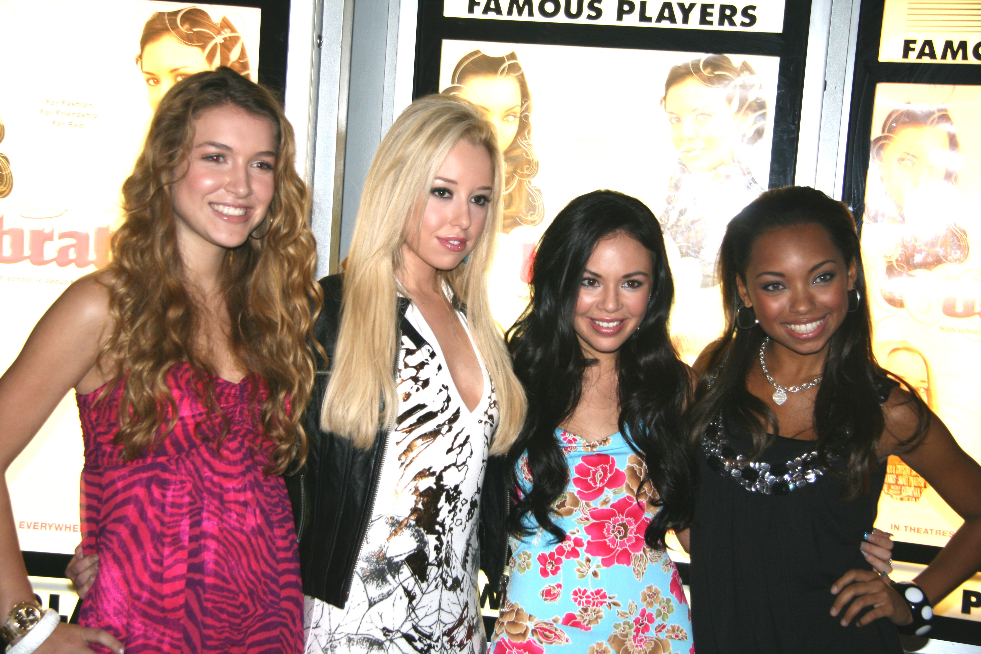 Cast of Bratz at the Canadian premiere, in Toronto.